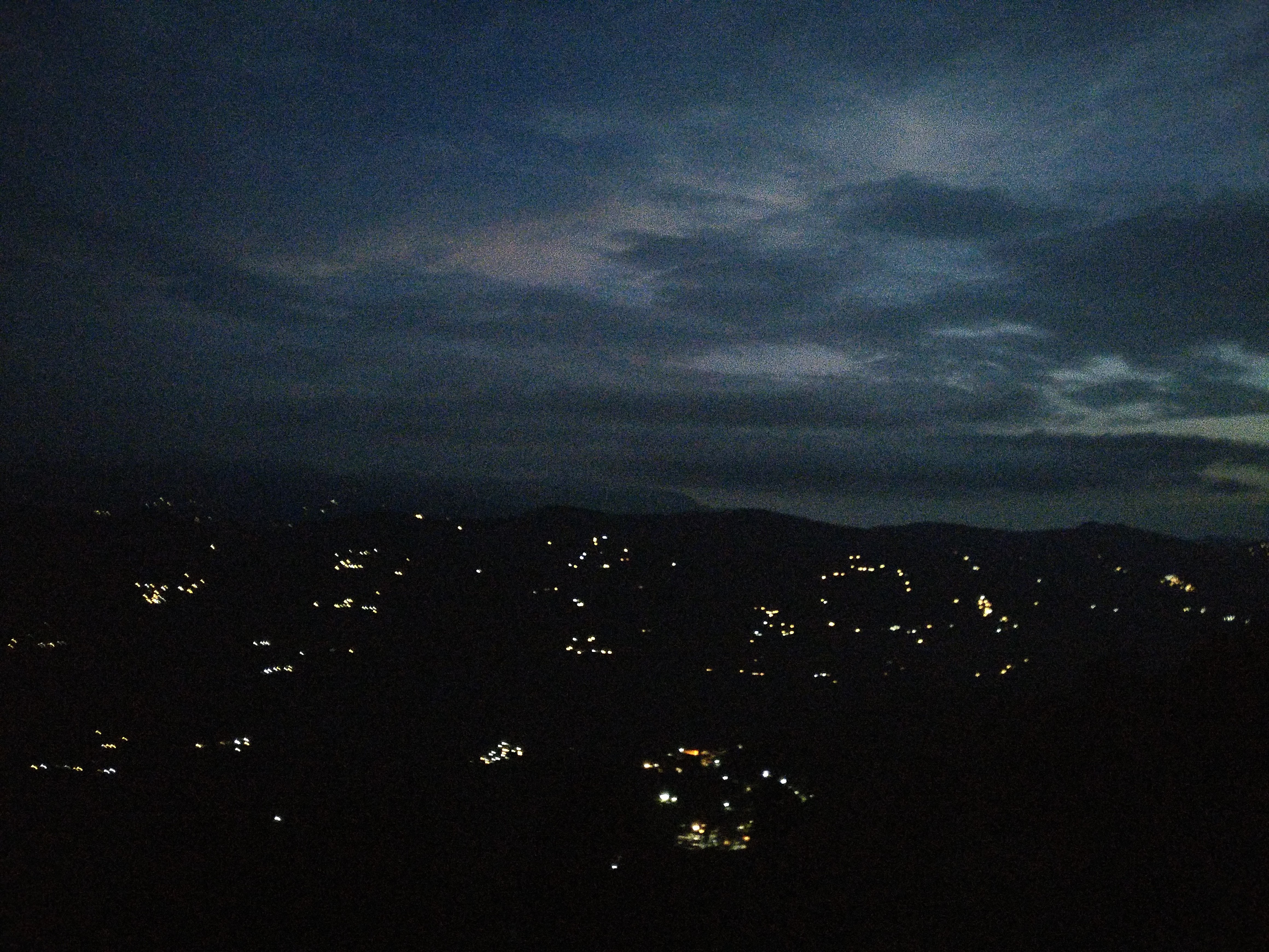 Night View from Bhargaon overlooking various small villages